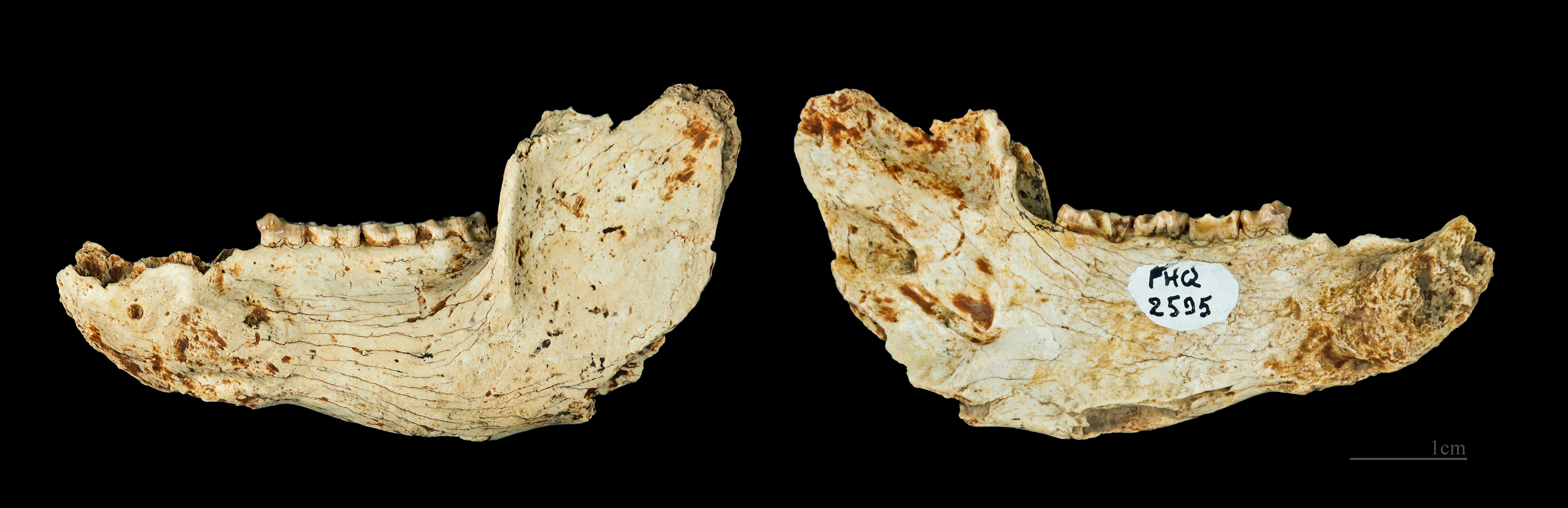 Mandible (Adapis parisiensis) - The two sides of the same specimen - 1876 Stage : Oligocene (33.9 to 23.03 million years Before the Current Era) Locality : Escamps, Lot, France Size 6x3x1cm Former collection of Henri Filhol